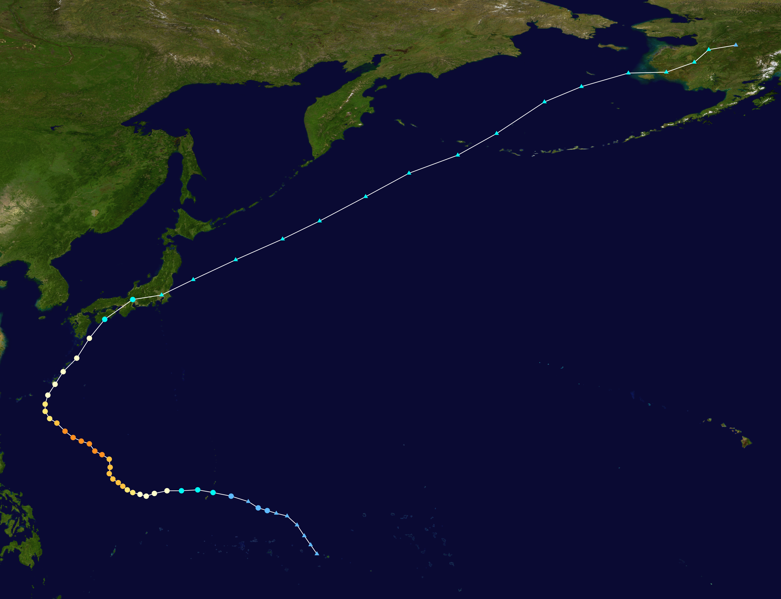 Typhoon Tokage (2004) track. Uses the color scheme from the Saffir-Simpson Hurricane Scale.